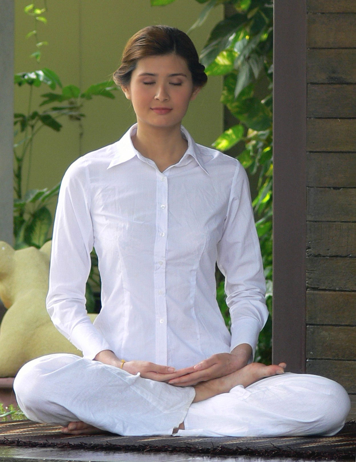 Thai young woman meditating in half-lotus position in a rural environment